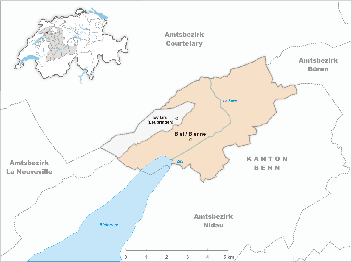 Municipality Biel